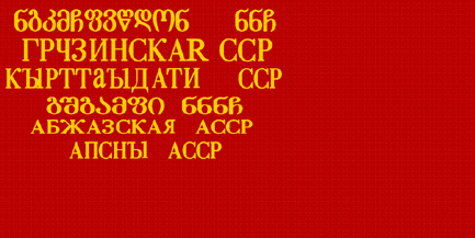 This text is nonsense. The text in georgian alphabet is gibberish. There are several mistakes in Cyrillic as well.